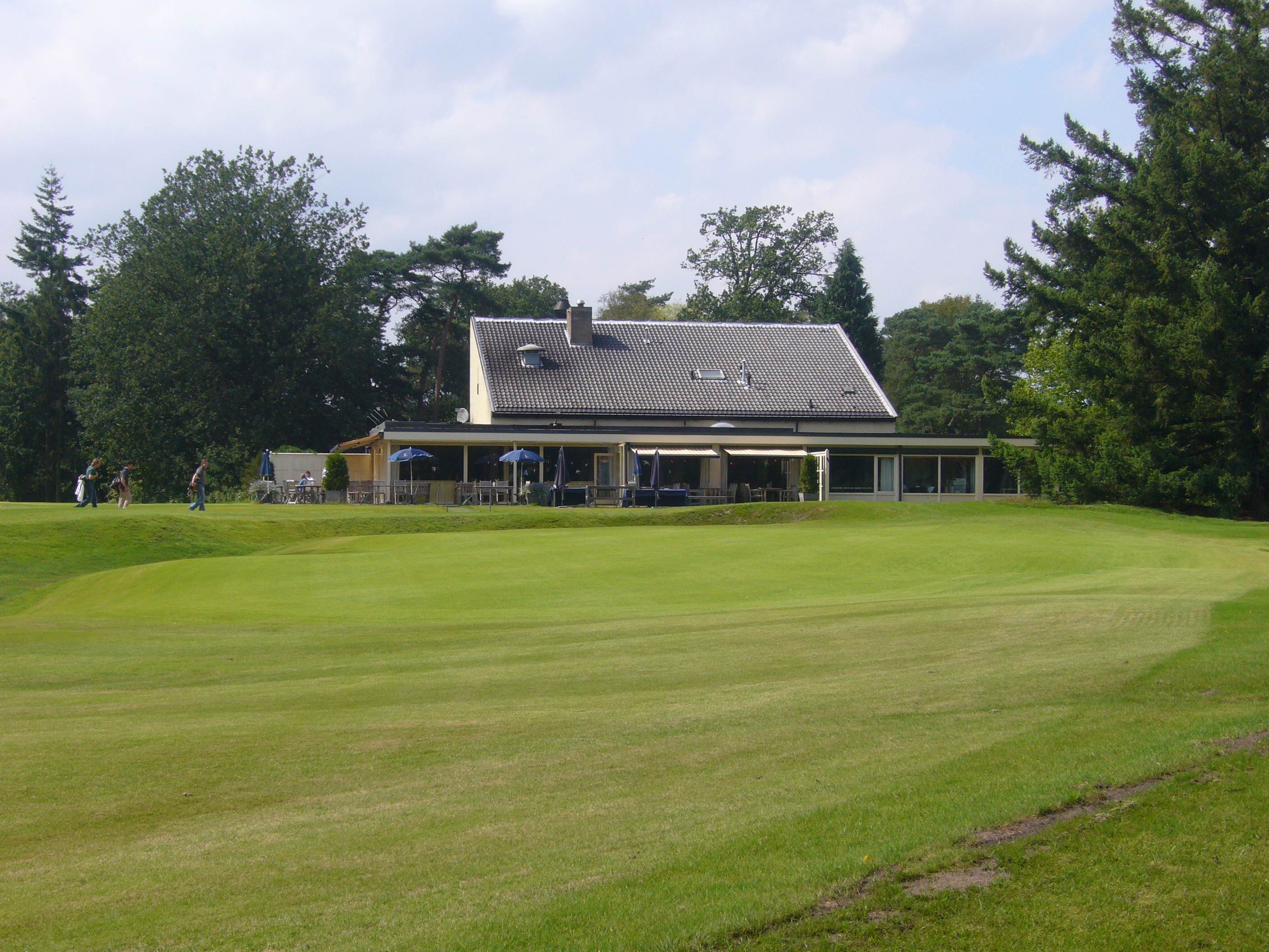 Hilversumsche Golf Club, clubhouse behind the new 18th green